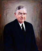 Clarence Cannon, US Representative from Missouri